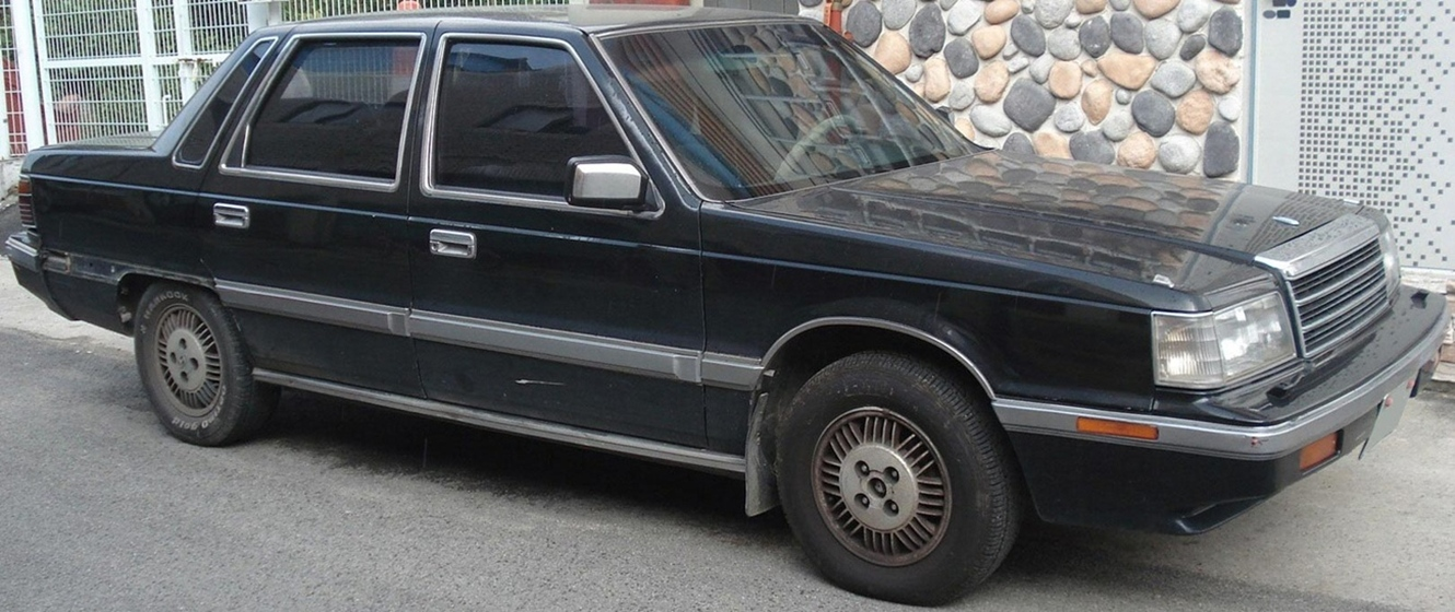 Hyundai Grandeur